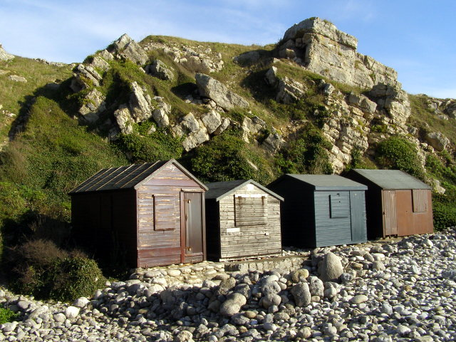 Beach huts, Church Ope Cove The four east-most beach huts on the beach at Church Ope Cove. The only beach on this side of Portland, the huts change hands for huge sums. Once small fishing boats would work out of the cove, now only a rusting winch remains.